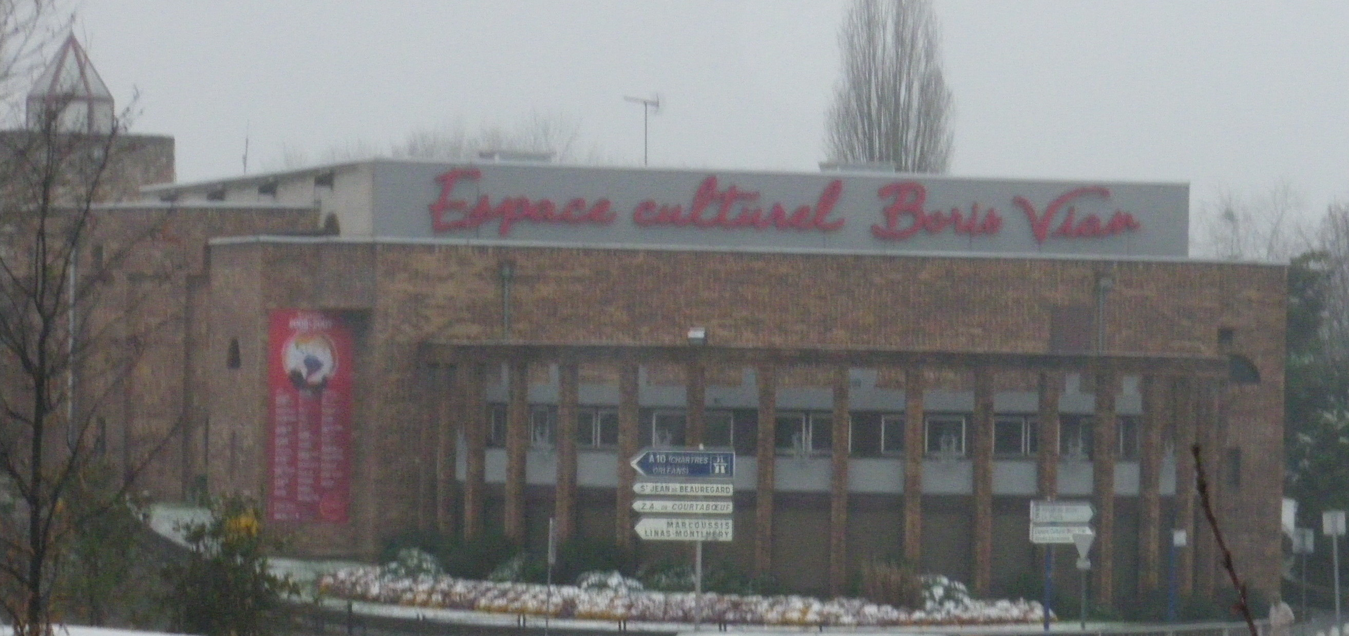 Culture Center Boris Vian, Les Ulis, France